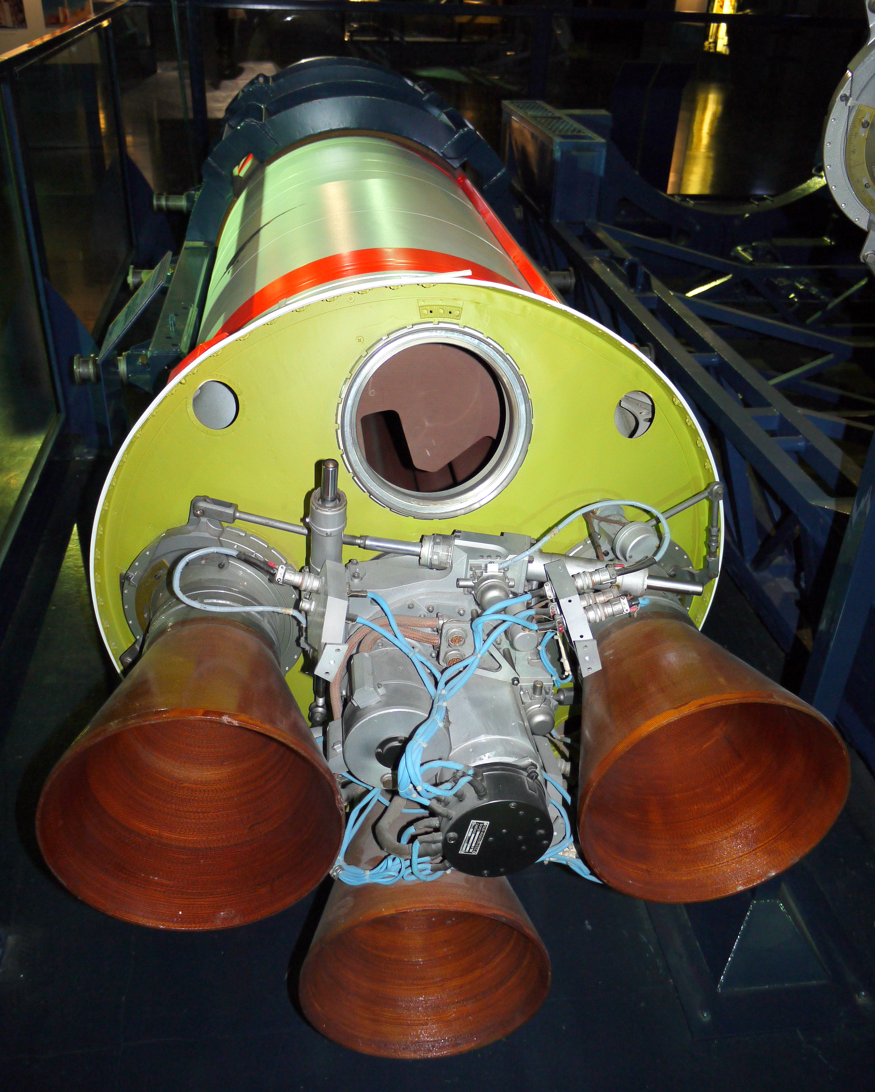 Diamant A rocket, Museum of Air and Space Paris, Le Bourget (France)